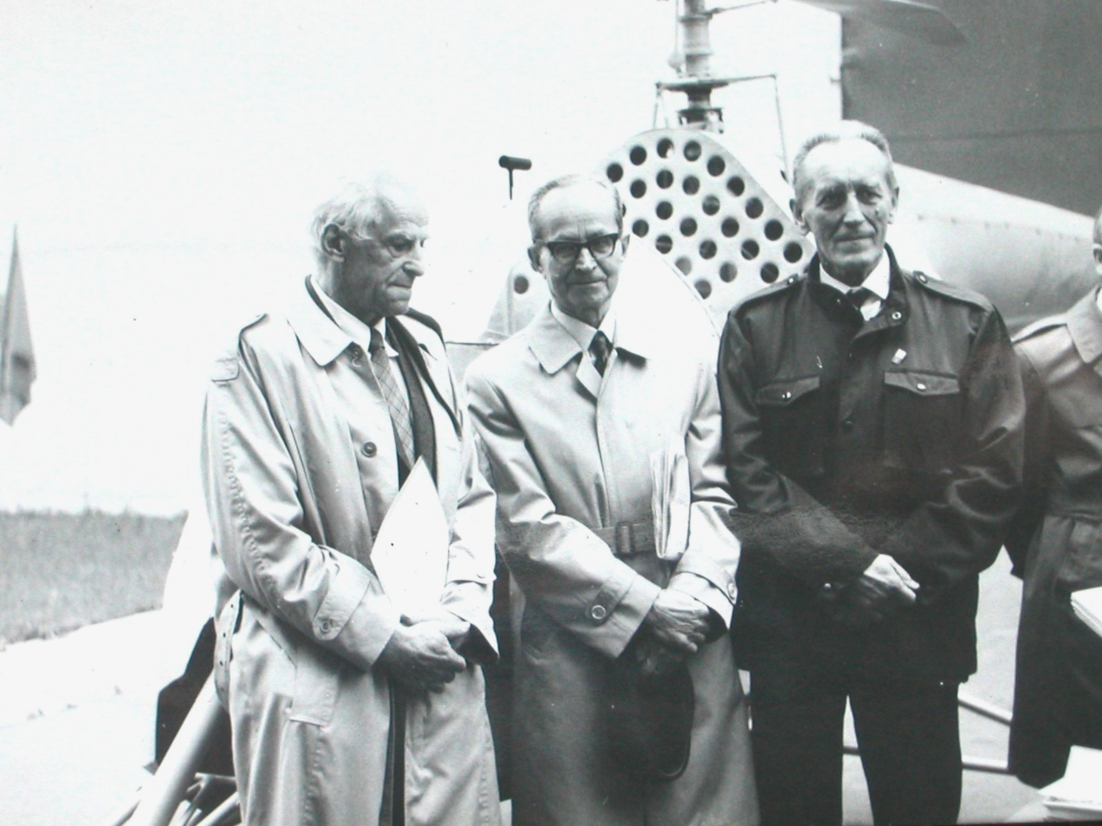 Retired polish test pilots: from left Wiktor Pełka, Bronisław Żurakowski, Ryszard Witkowski in 1991.